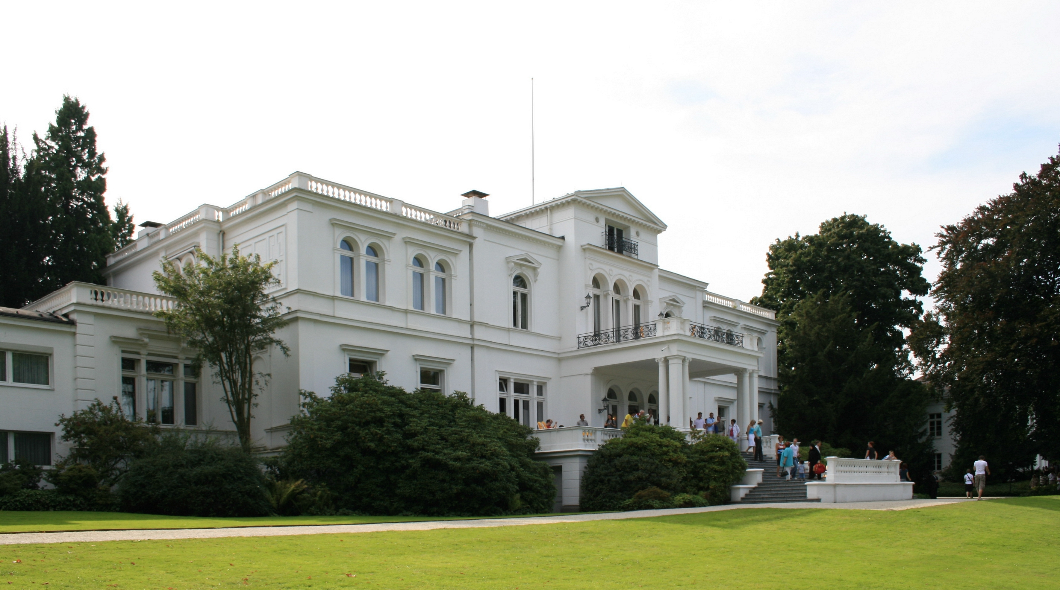 Villa Hammerschmidt, second residence of german president in Bonn, Germany. View from backside/garden.